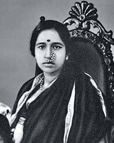 Gangubai Hangal (1913-2009) and daughter Krishna (c. 1929-2004)